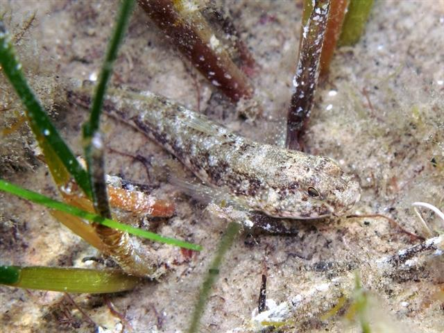 Gobius couchi photographed in Rab, Croatia.